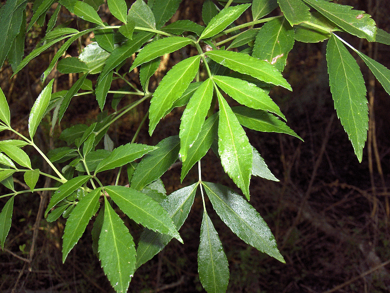 Fraxinus caroliniana foliage. Florida.